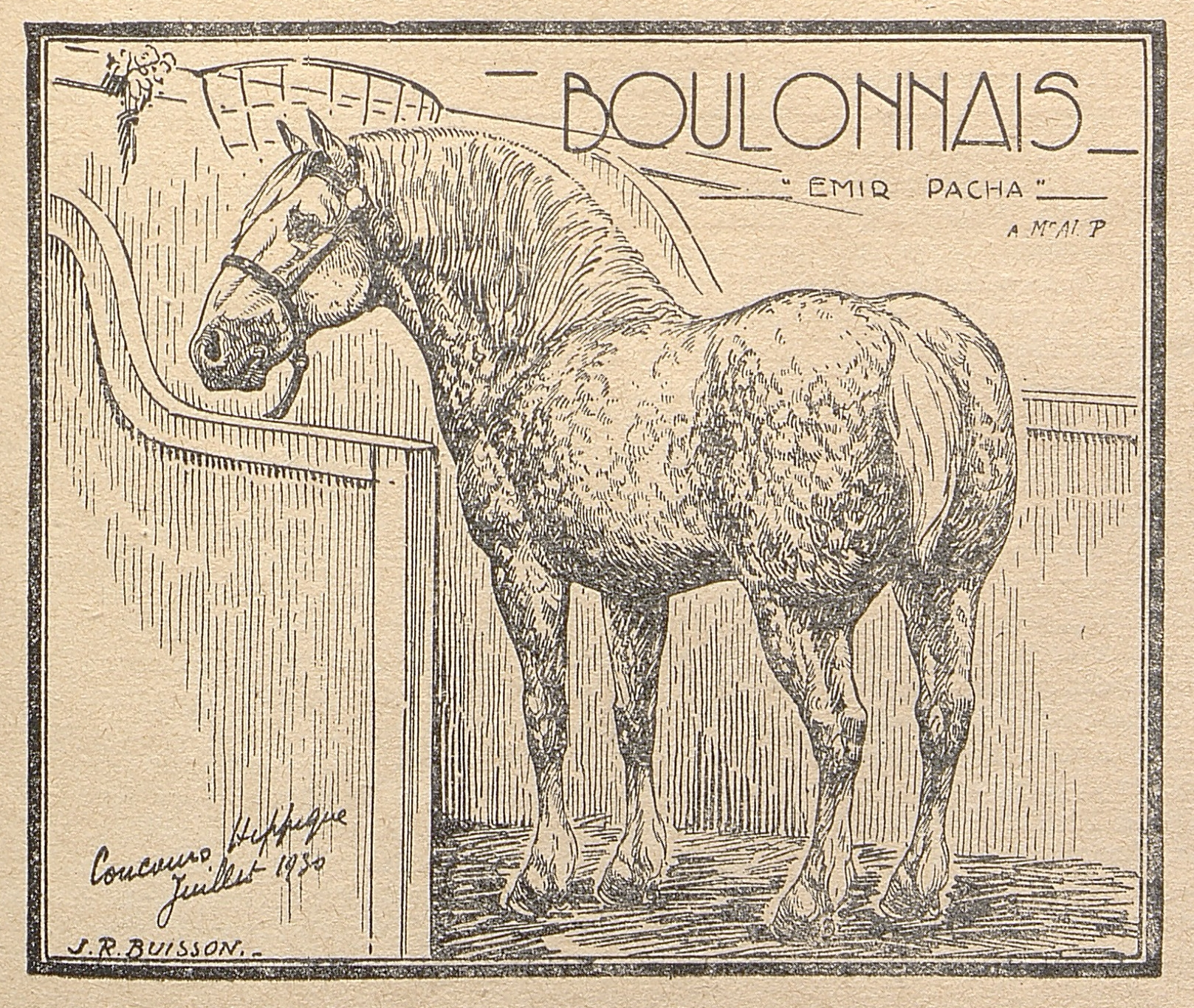 Illustration issue de "Les chevaux qui paient", La vie à la campagne, numéro extraordinaire, Paris, Hachette, 1930, vol. LXV, p. 11. Ouvrage appartenant à la Bibliothèque historique du ministère de l'Agriculture, déposée à la MRSH Caen. Fichier : UNICAEN_MRSH_Cheval_CC_634_11A